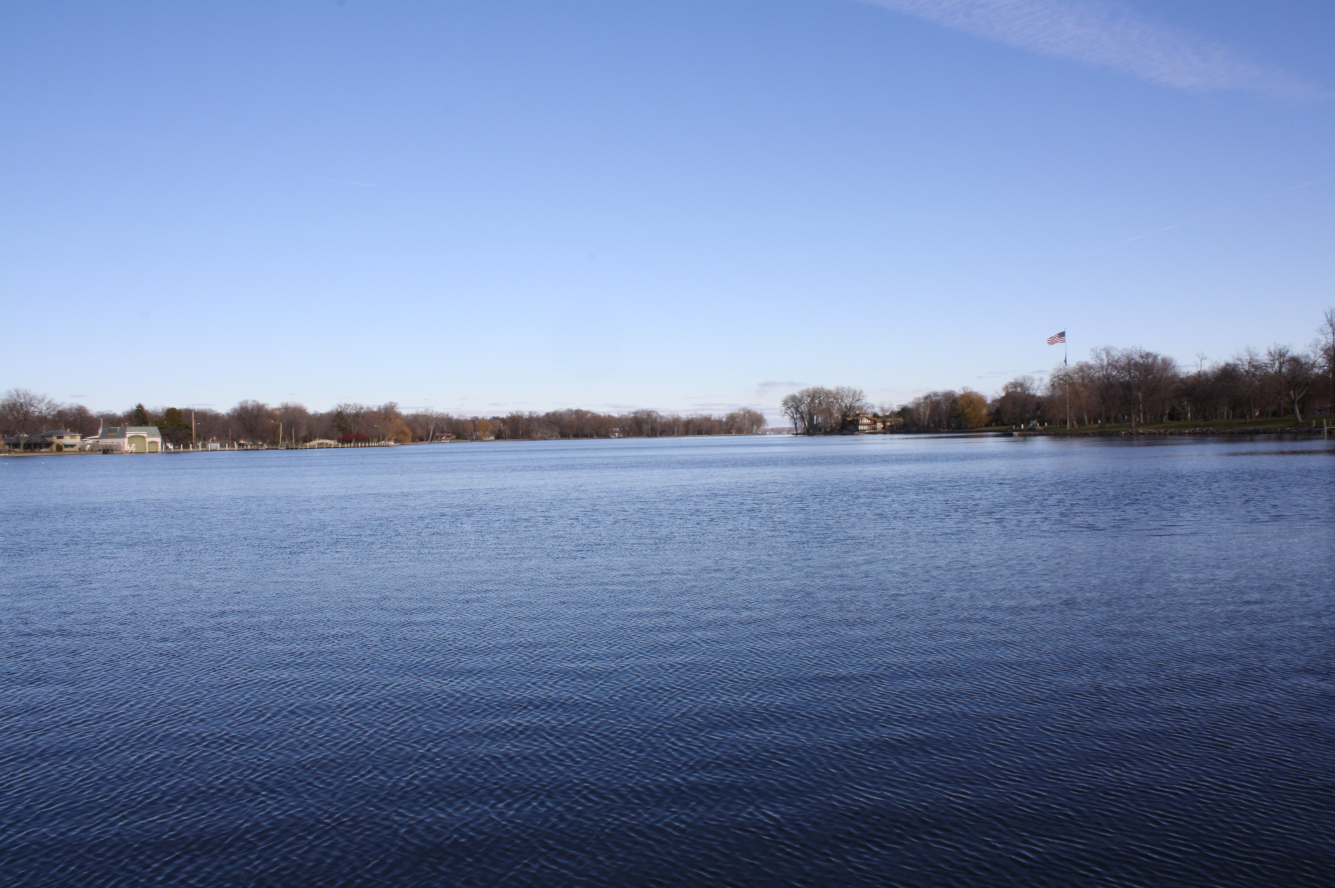 Looking north across the Fox River (Wisconsin) at Doty Island from Neenah, Wisconsin.